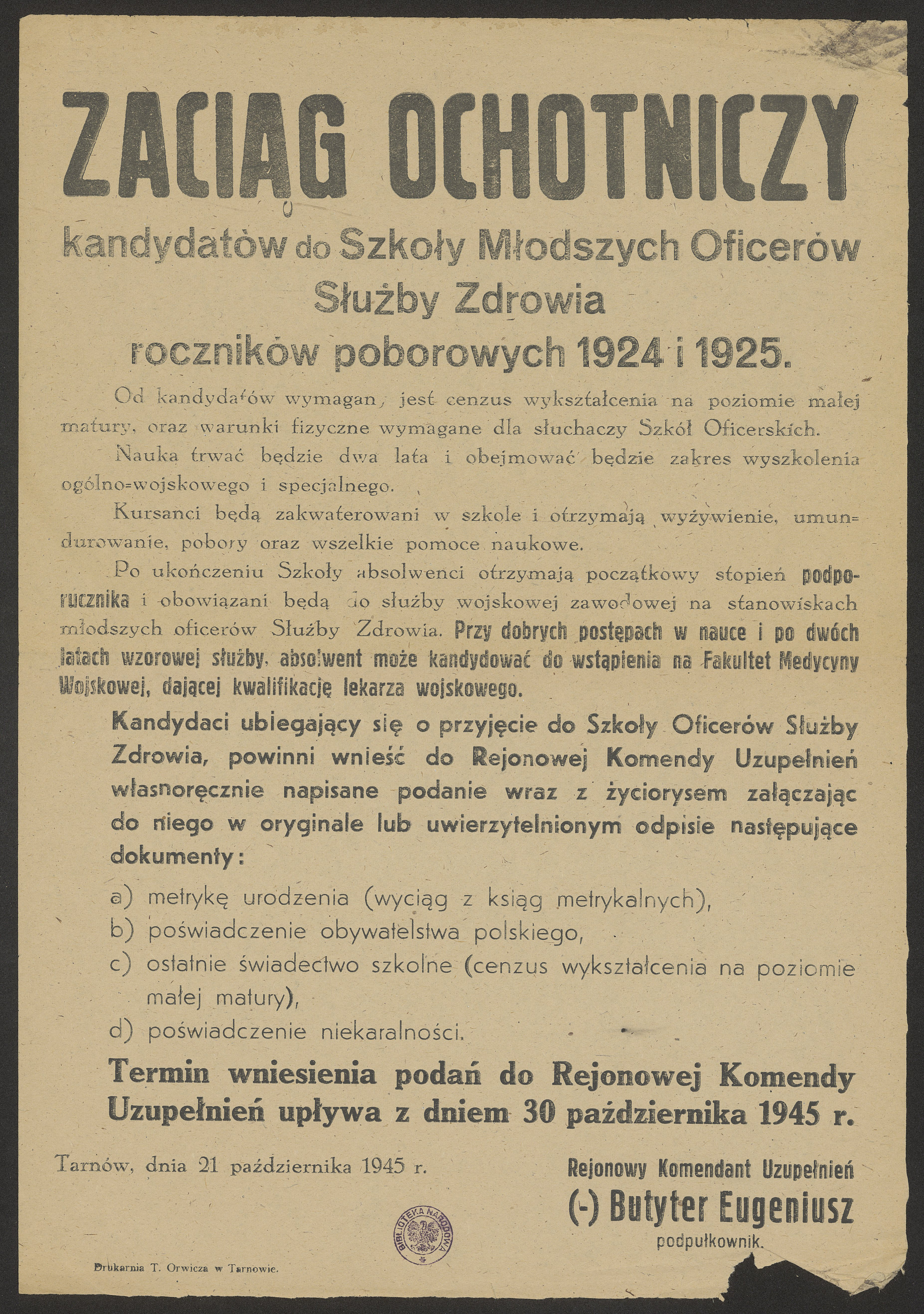 Announcement about voluntary army recruitment, Military Restoration Command in Tarnów 1945